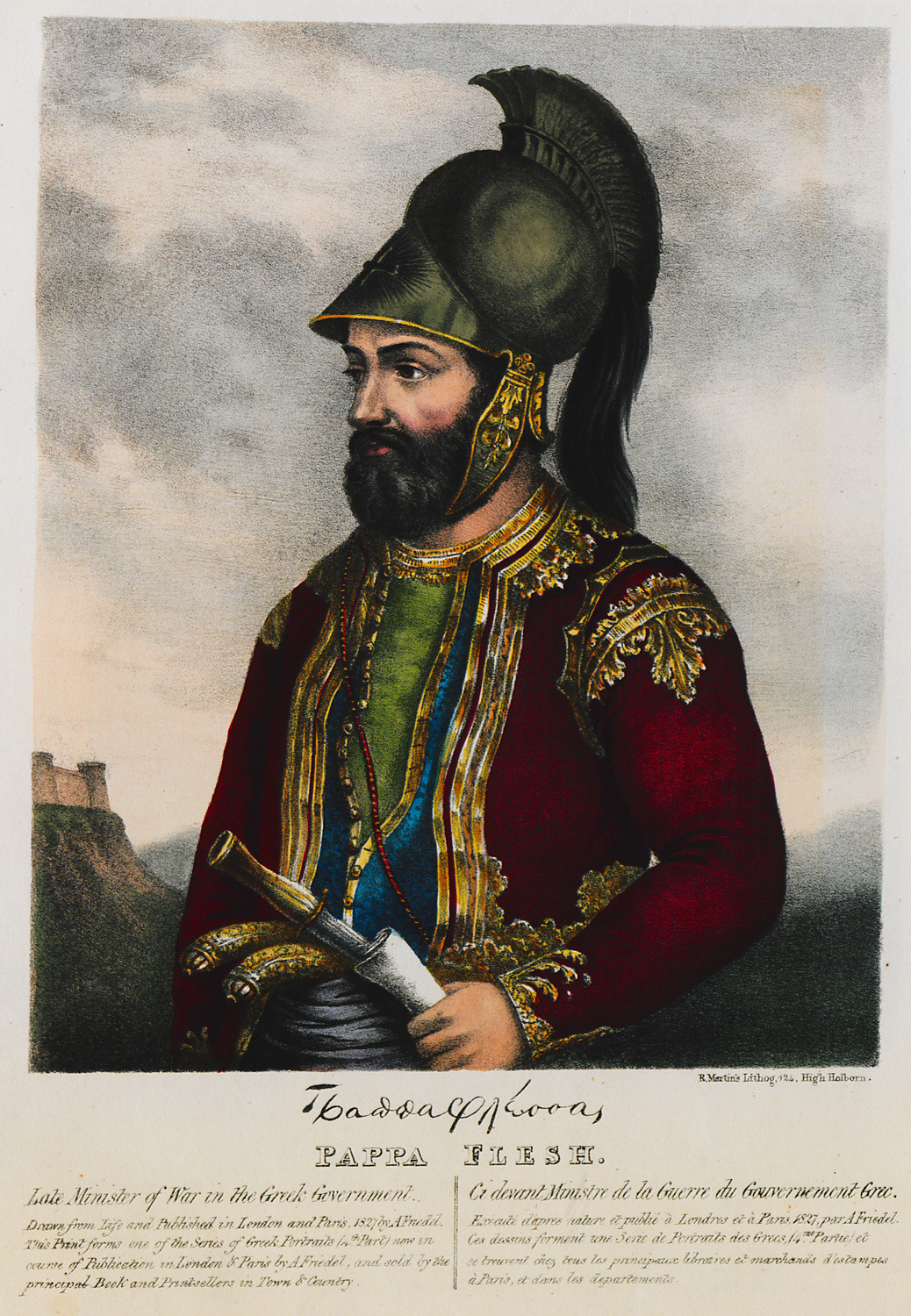 Adam de Friedel. The Greeks, Twenty-four Portraits of the principal Leaders and Personages who have made themselves most conspicuous in the Greek Revolution, from the Commencement of the Struggle, London, Adam de Friedel, 1830.